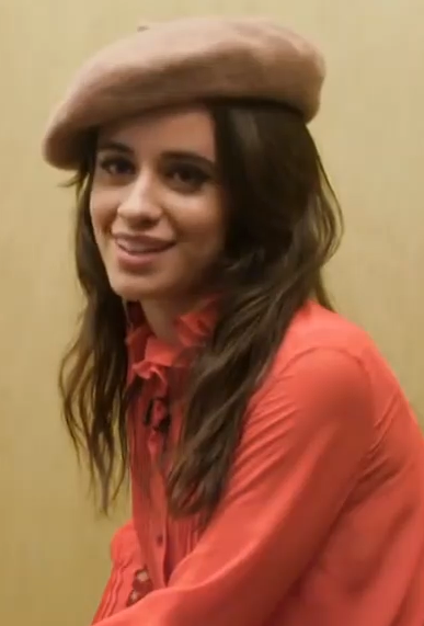 Camila Cabello in an interview for MTV UK on 7 December 2017